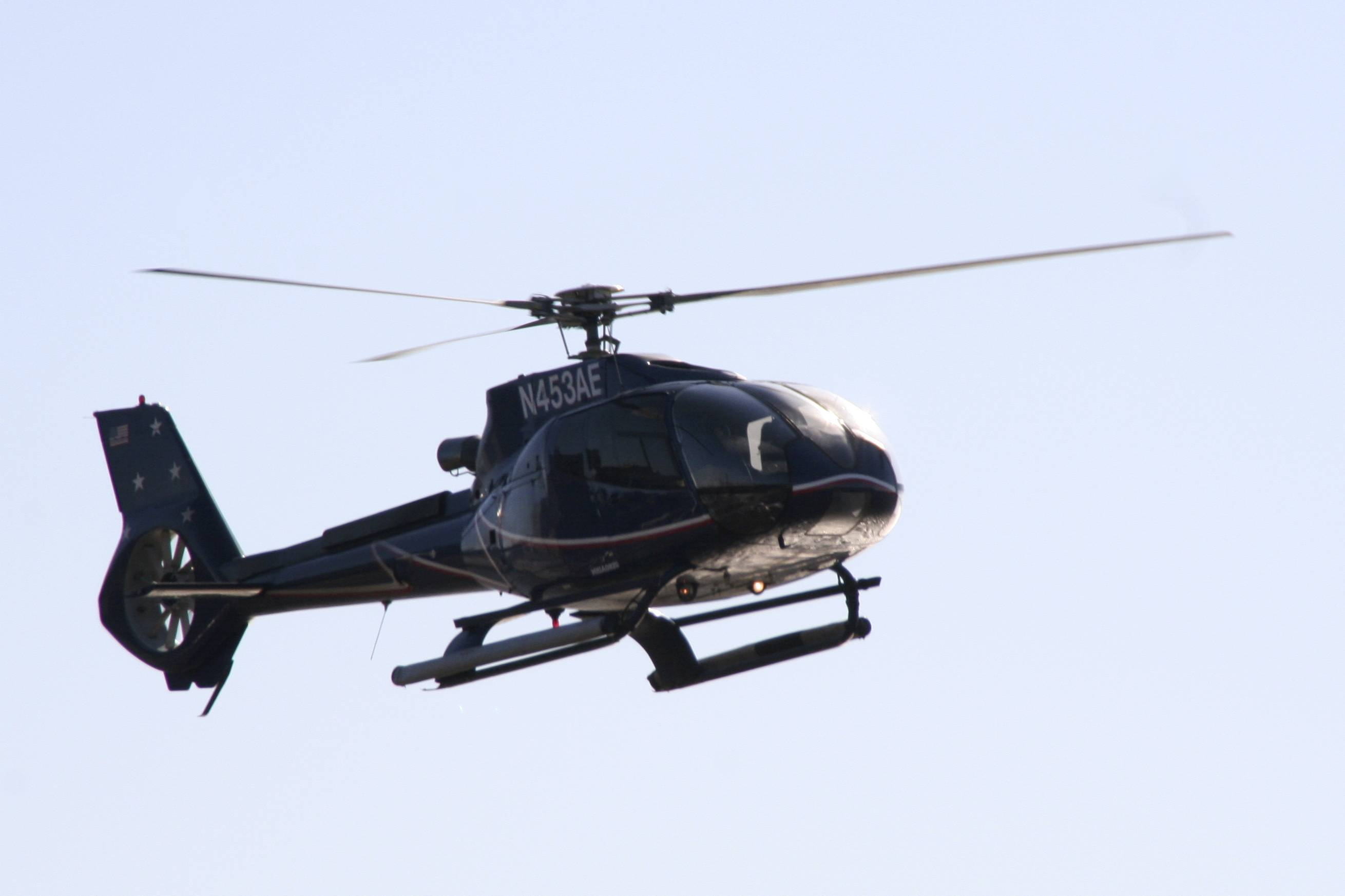 Eurocopter EC130 B4 on flight in New York sky.